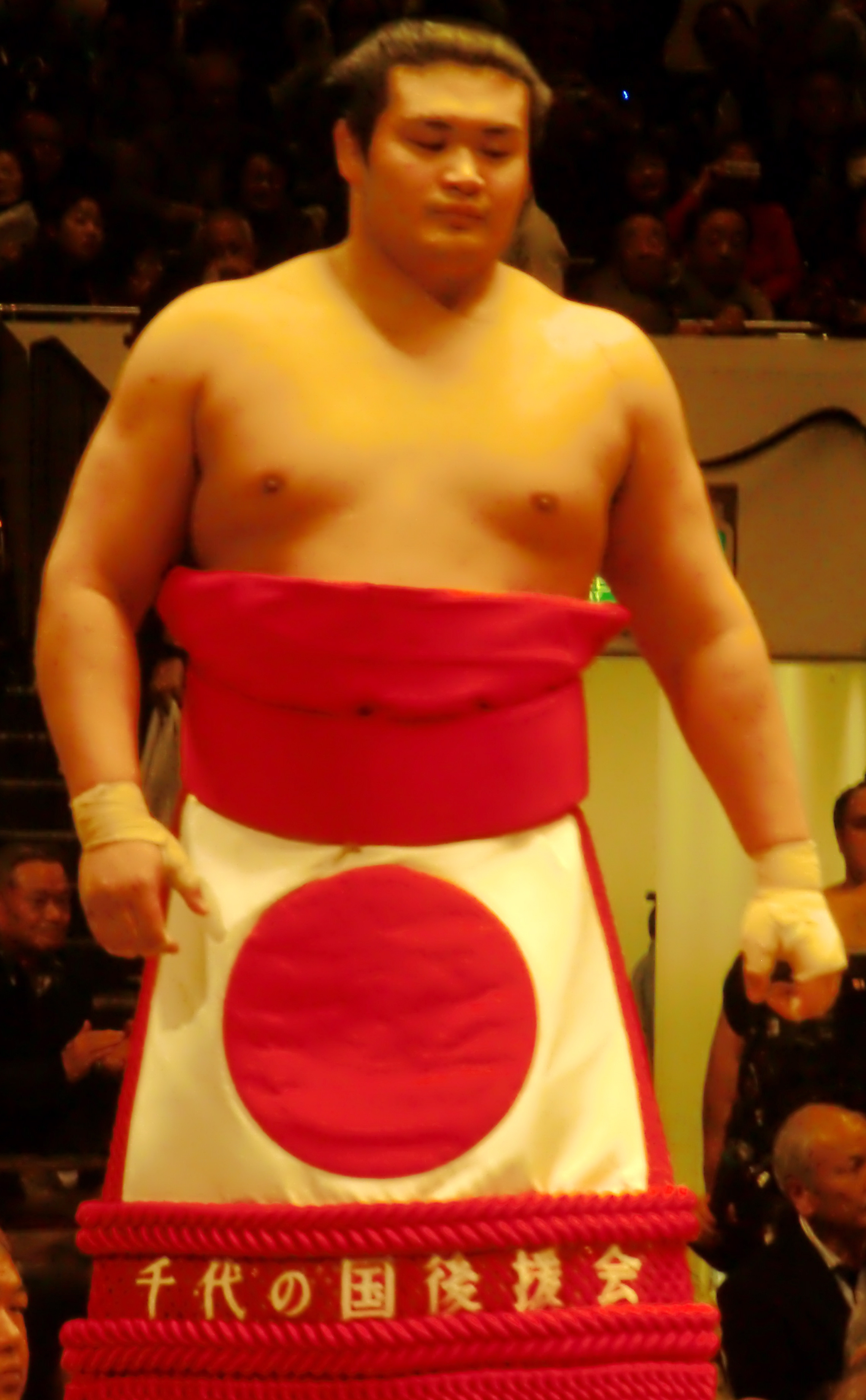 taken at 2012 Jan tournament